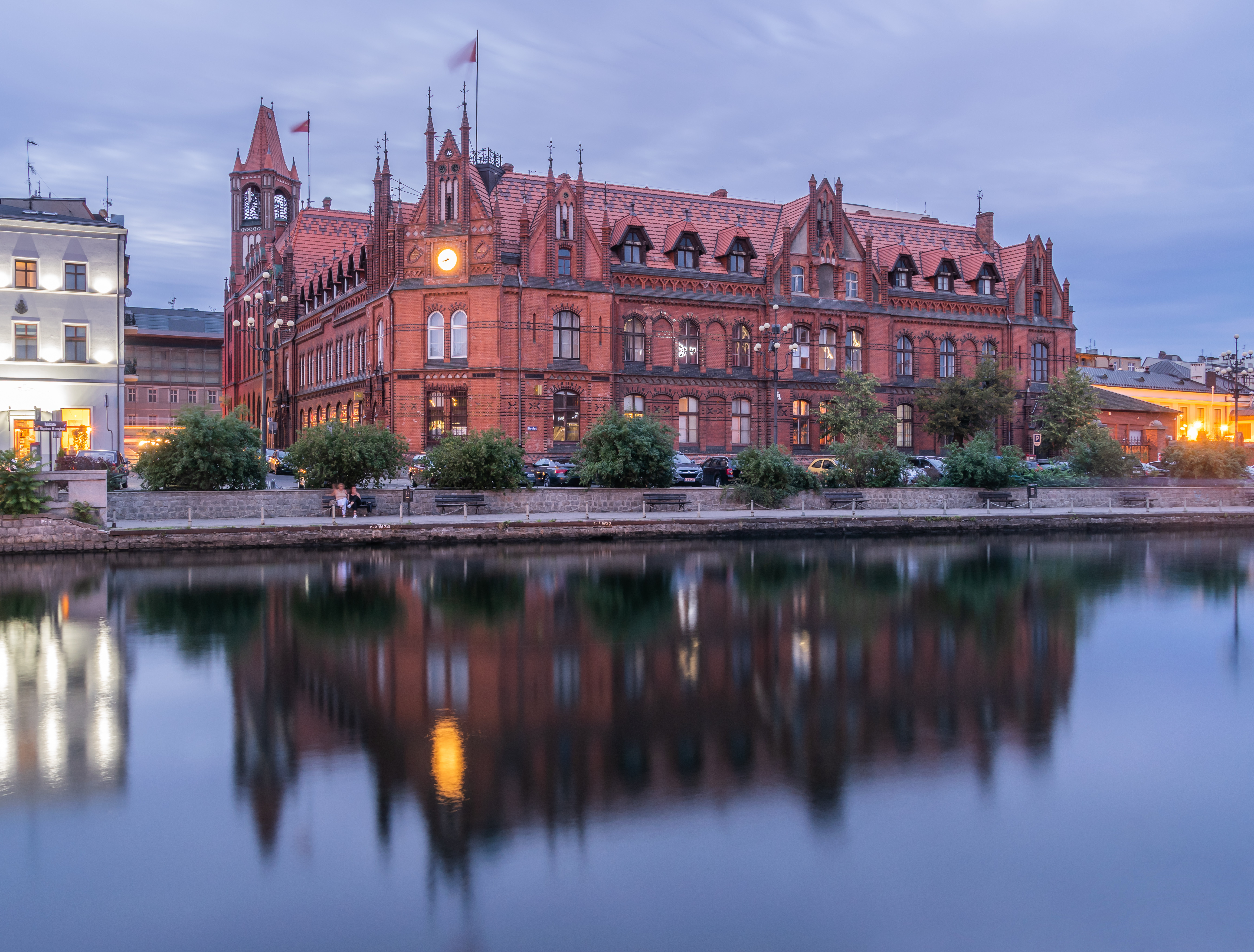 Main Post Office in Bydgoszcz, Kuyavian-Pomeranian Voivodeship, Poland